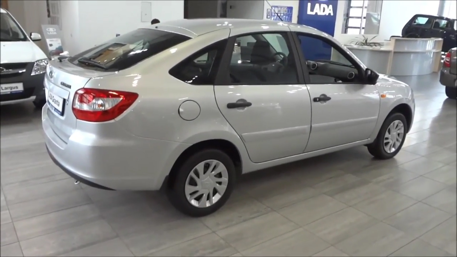 Lada Granta Liftback